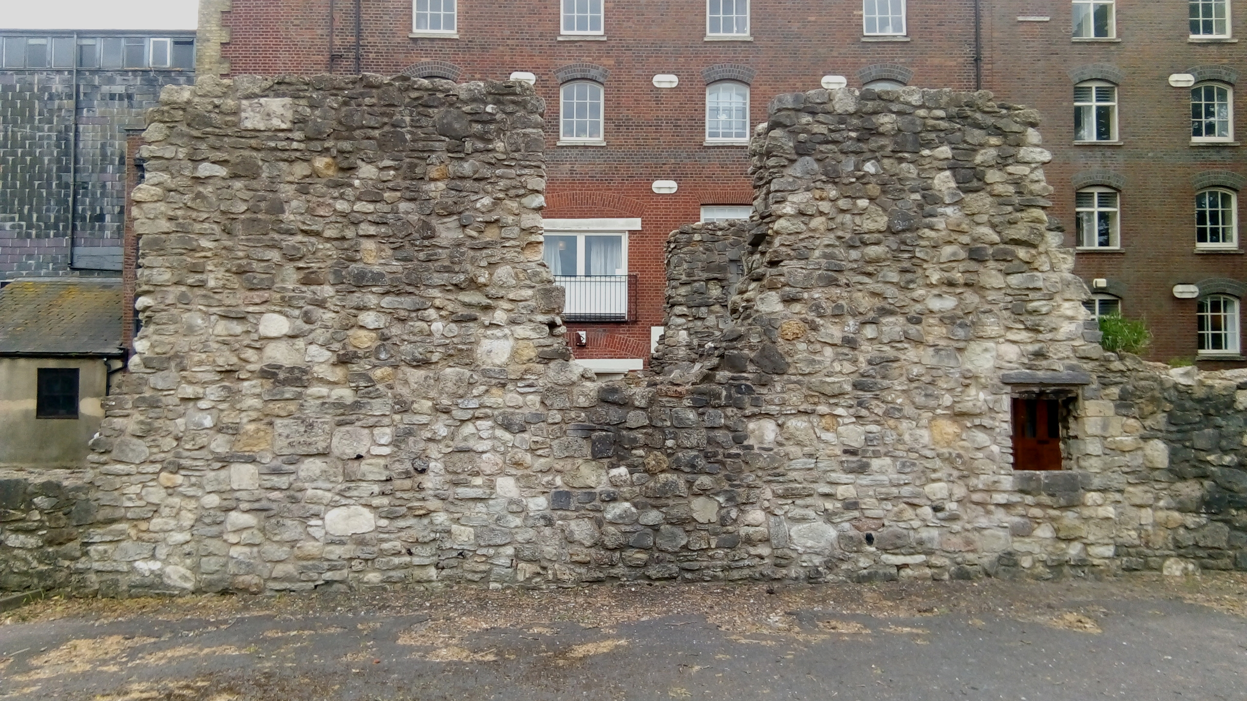 The northern wall of Canute's Palace in Southampton, as seen from the north of the building.